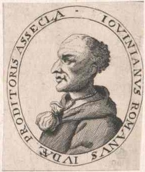 Jovinianus (died about 405), polemic portrait, baroque